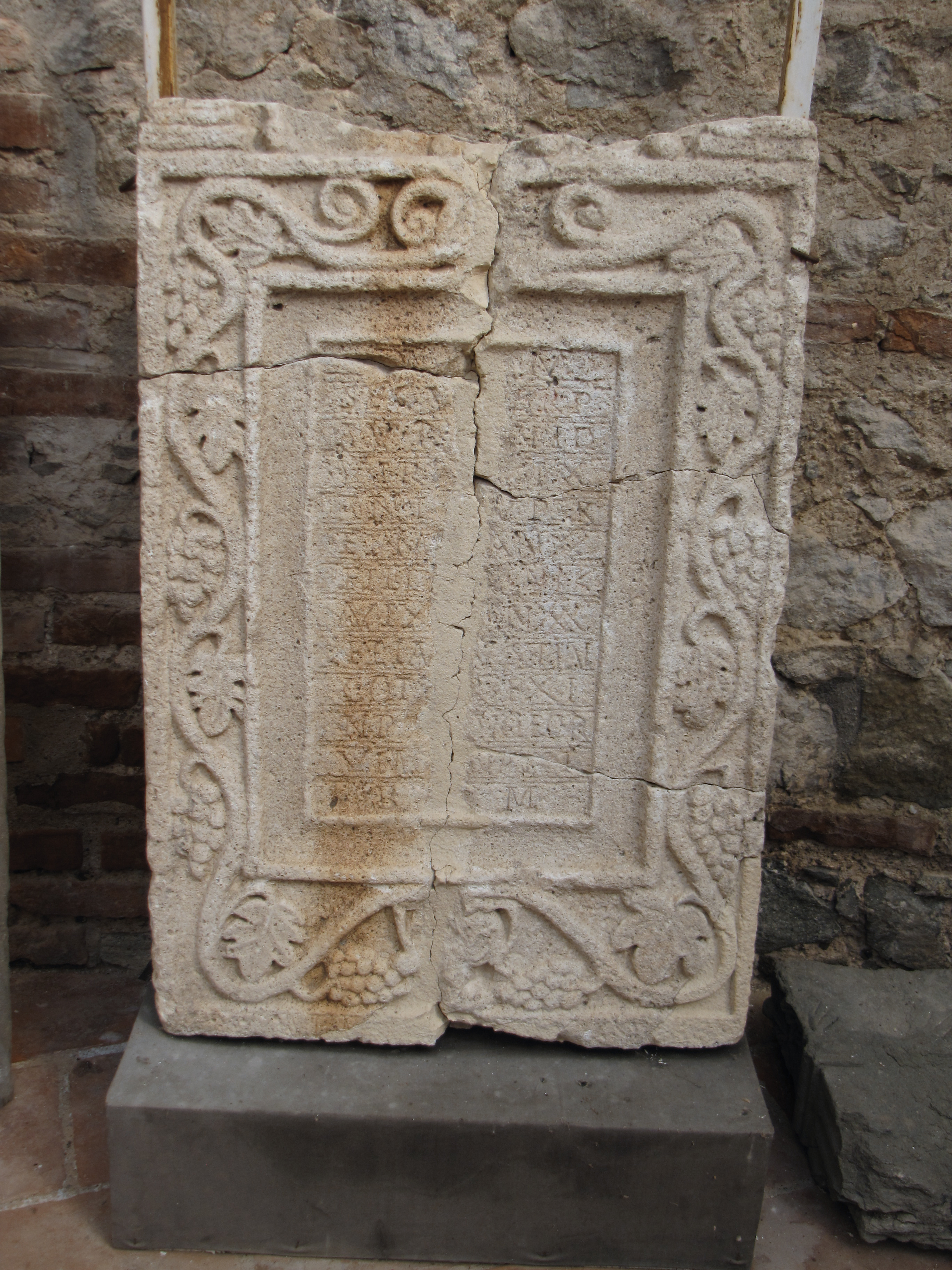 AWIB-ISAW: Artifacts at Felix Romuliana (XV) A marble table, inscribed with Latin text, at Felix Romuliana, a palace built by the emperor Galerius in modern-day Serbia. by Anne Chen (2009) copyright: 2009 Anne Chen (used with permission) photographed place: Felix Romuliana (Gamzigrad) [1] Published by the Institute for the Study of the Ancient World as part of the Ancient World Image Bank (AWIB). Further information: [2].